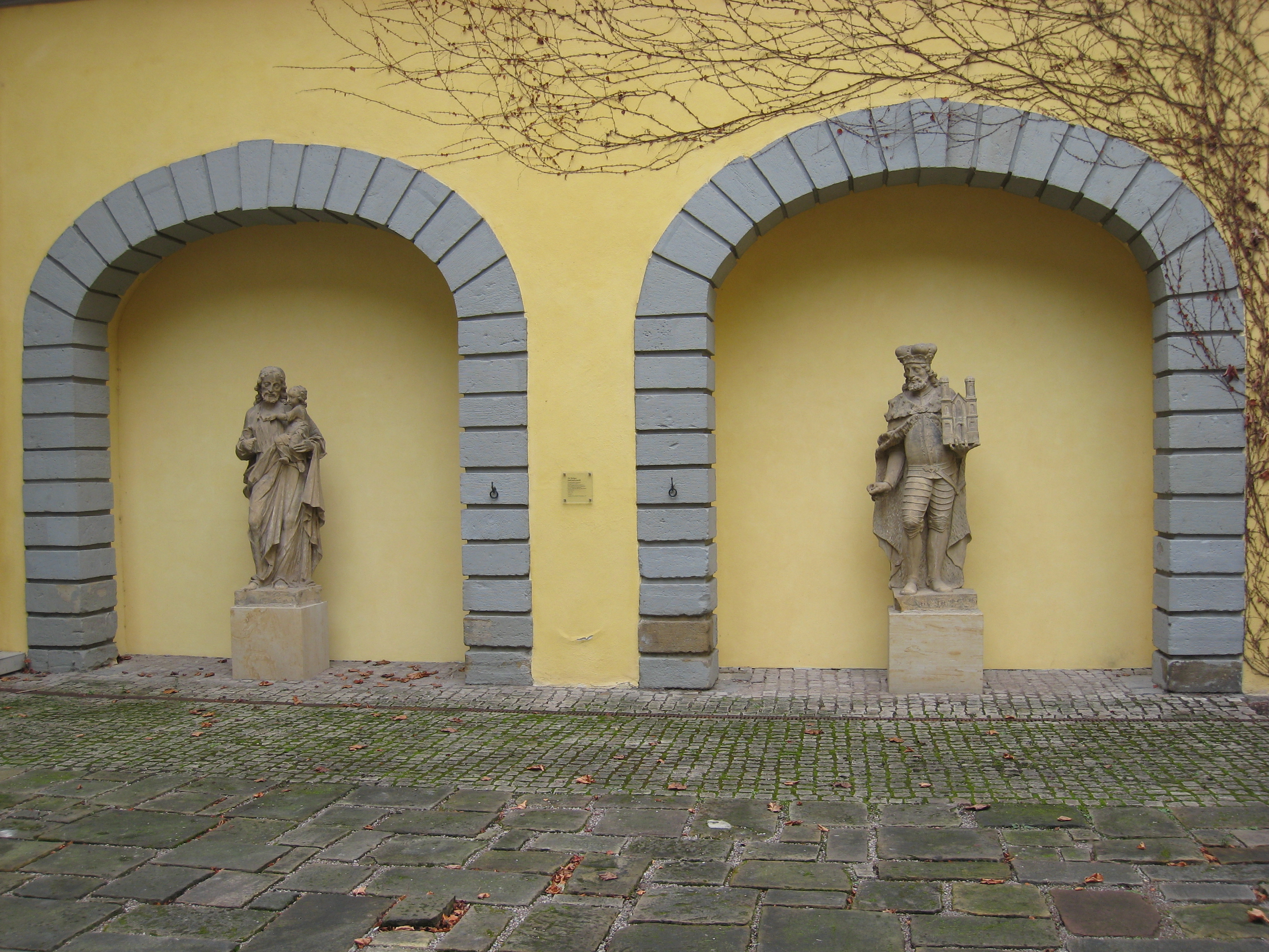 Saints from the former Carthusian monastery church in Erfurt, now at Angermuseum